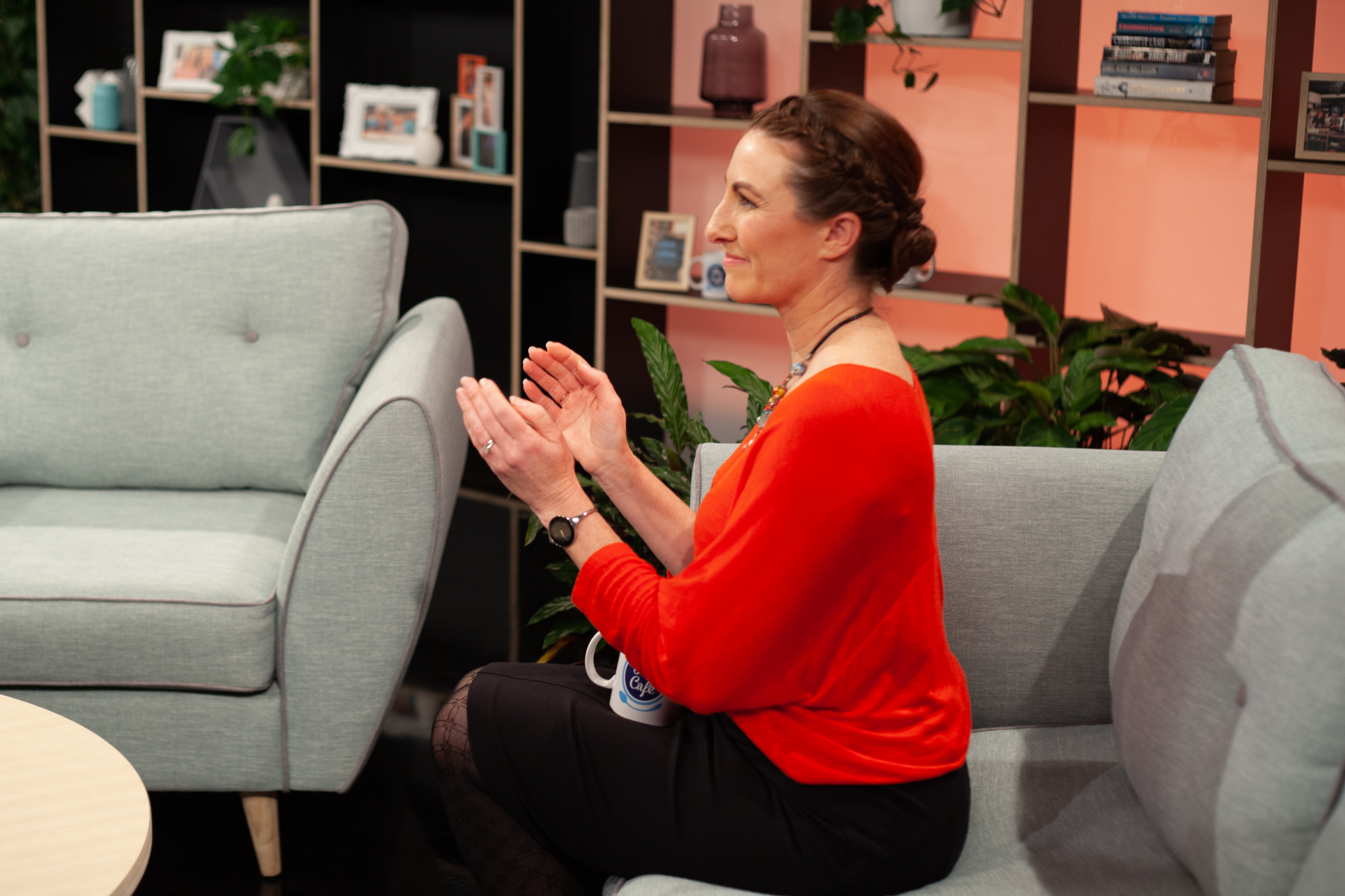 New Zealand television personality and travel presenter and journalist, Debbie Griffiths in 2016